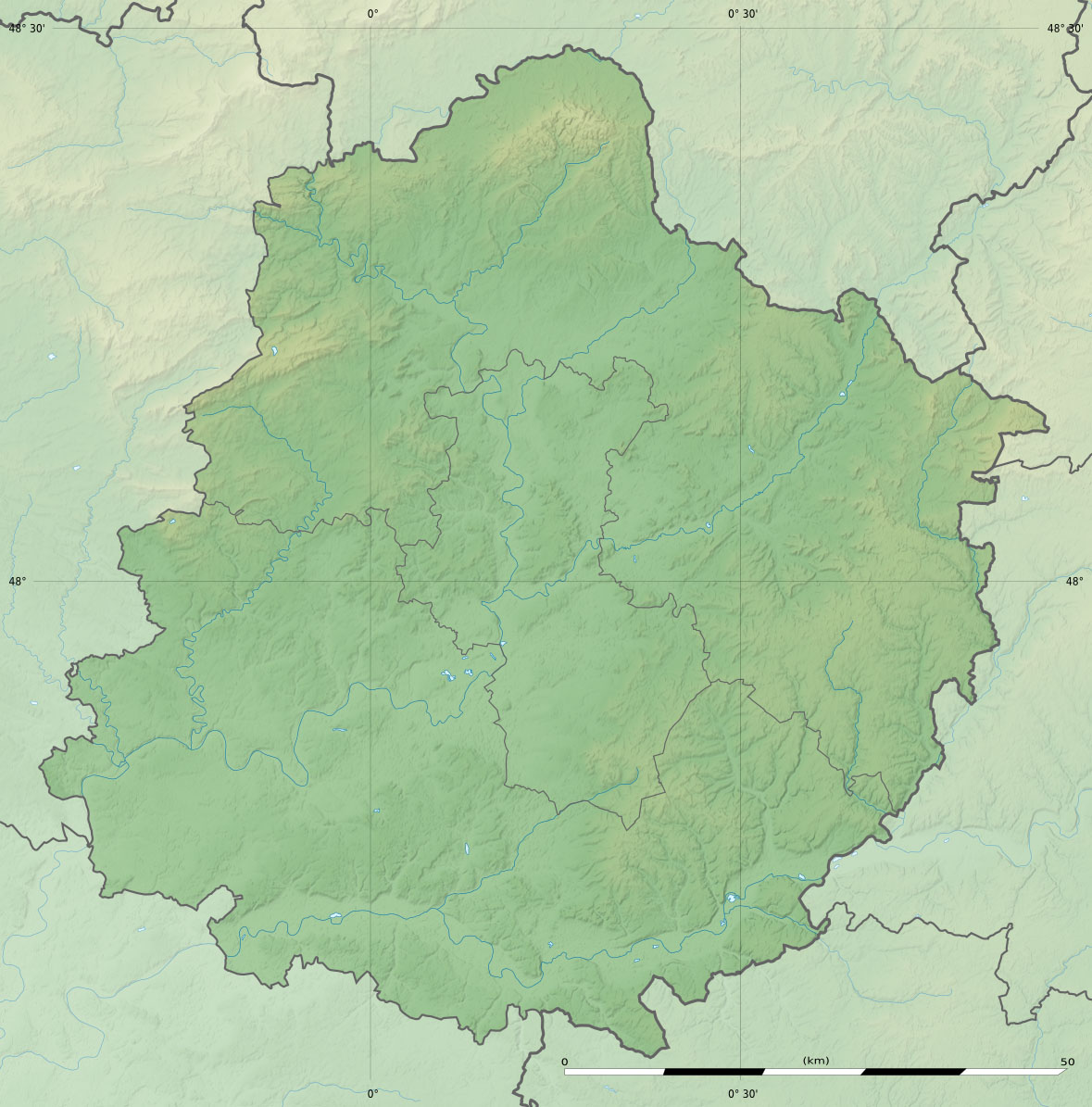 Blank physical map of the department of Sarthe, France, as in February 2011, for geo-location purpose, with distinct boundaries for regions, departments and arrondissements.